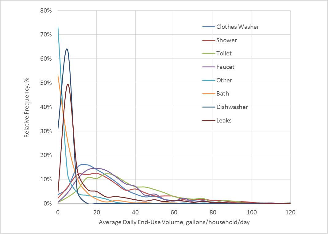 A set of histograms with distribution of use by end use in the U.S.